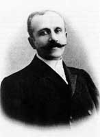 José María Quijano Wallis Ministry of Foreign Affairs (Colombia)